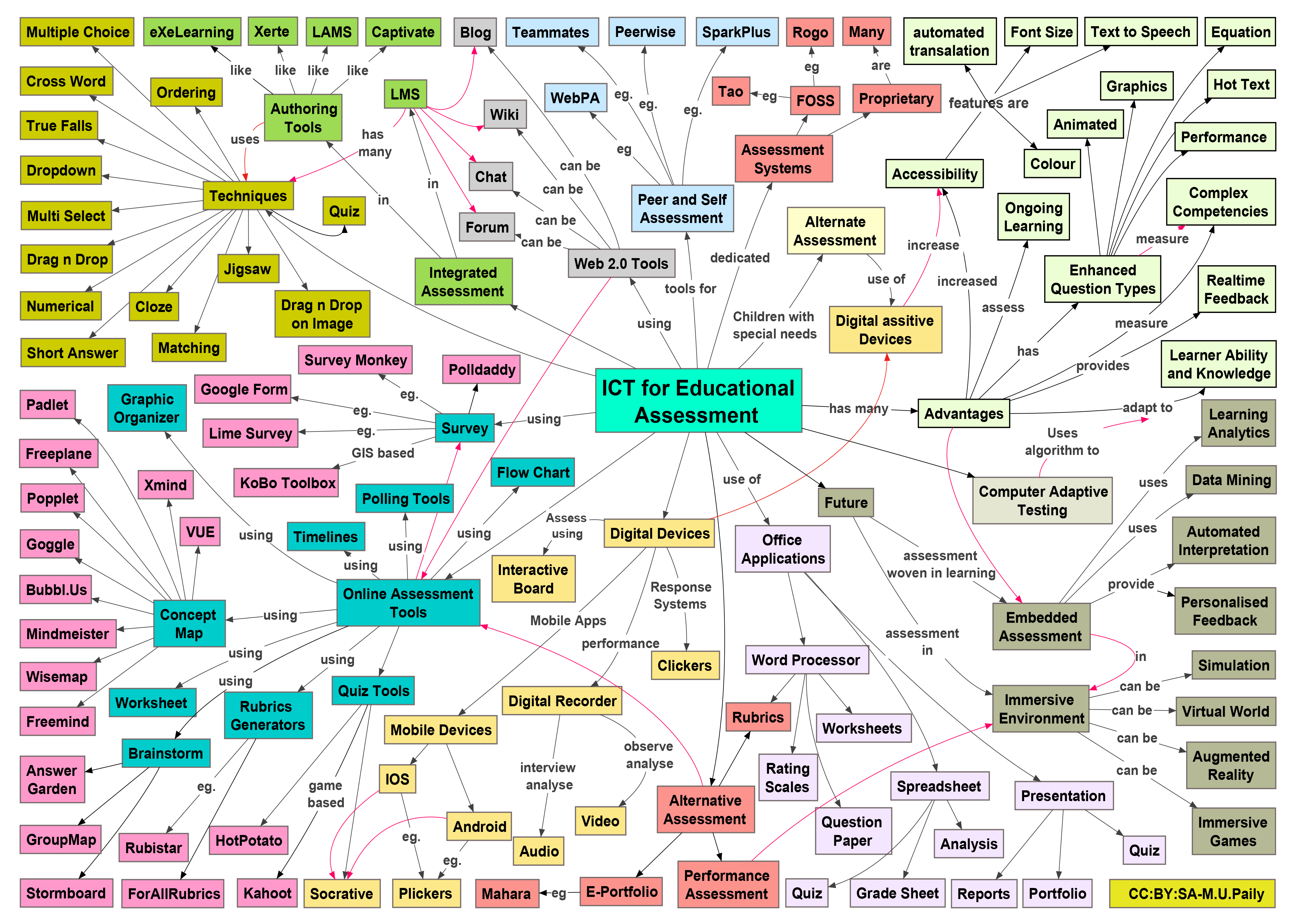 ICT-ASSESSMENT